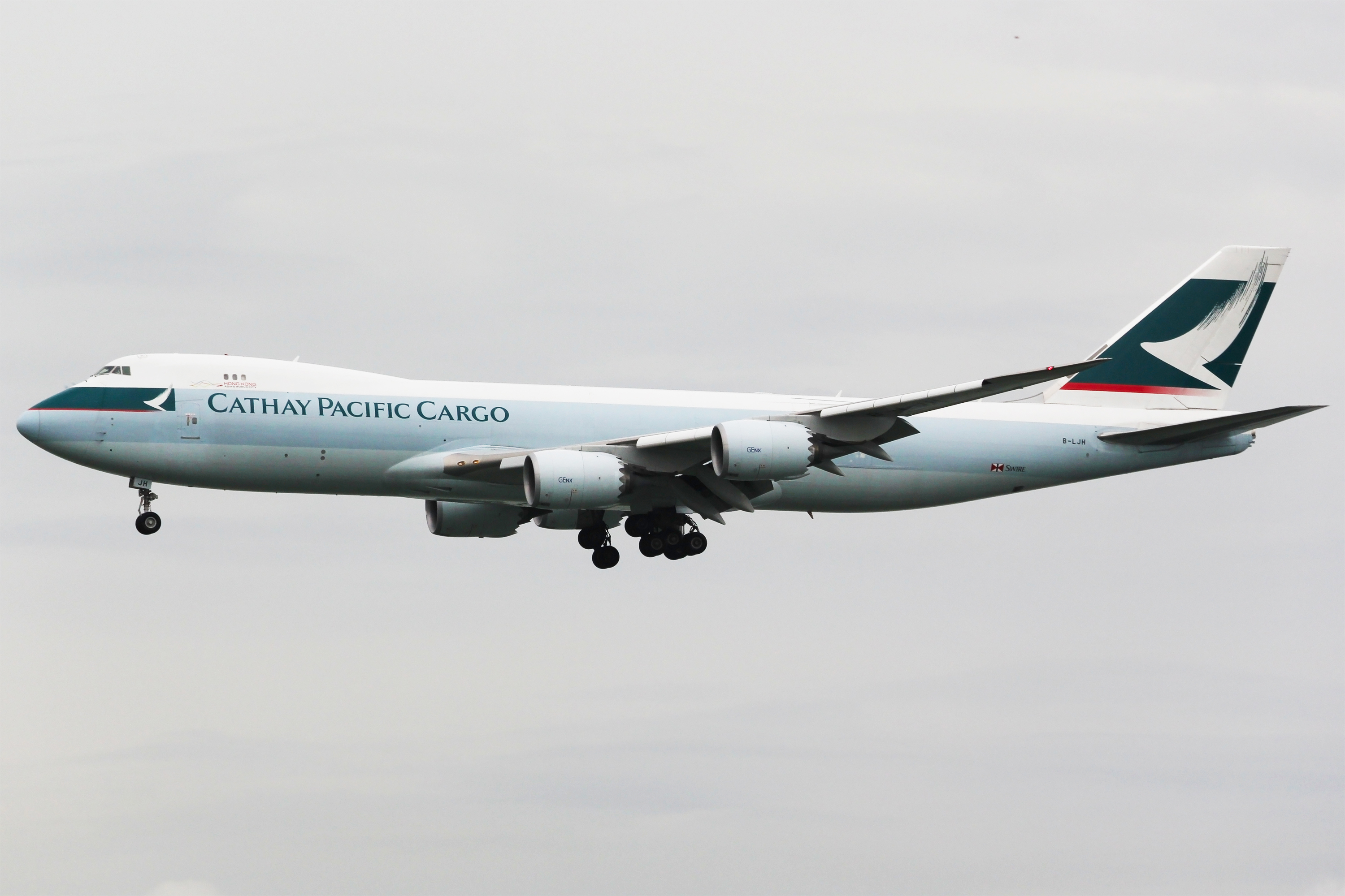 Cathay Pacific Cargo Boeing 747-867F (B-LJH) approaching Hong Kong International Airport.中文（中国大陆）: 国泰货运一架波音747-867F (B-LJH) 在香港国际机场降落。中文（香港）: 國泰貨運一架波音747-867F (B-LJH) 在香港國際機場降落。